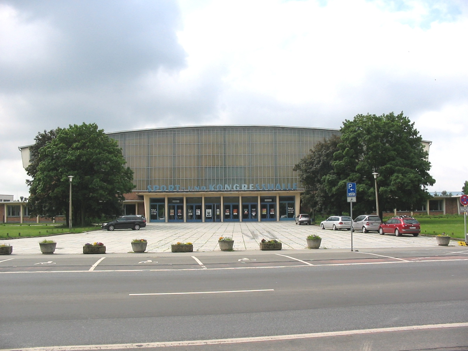 sports and congress hall in Schwerin, Germany